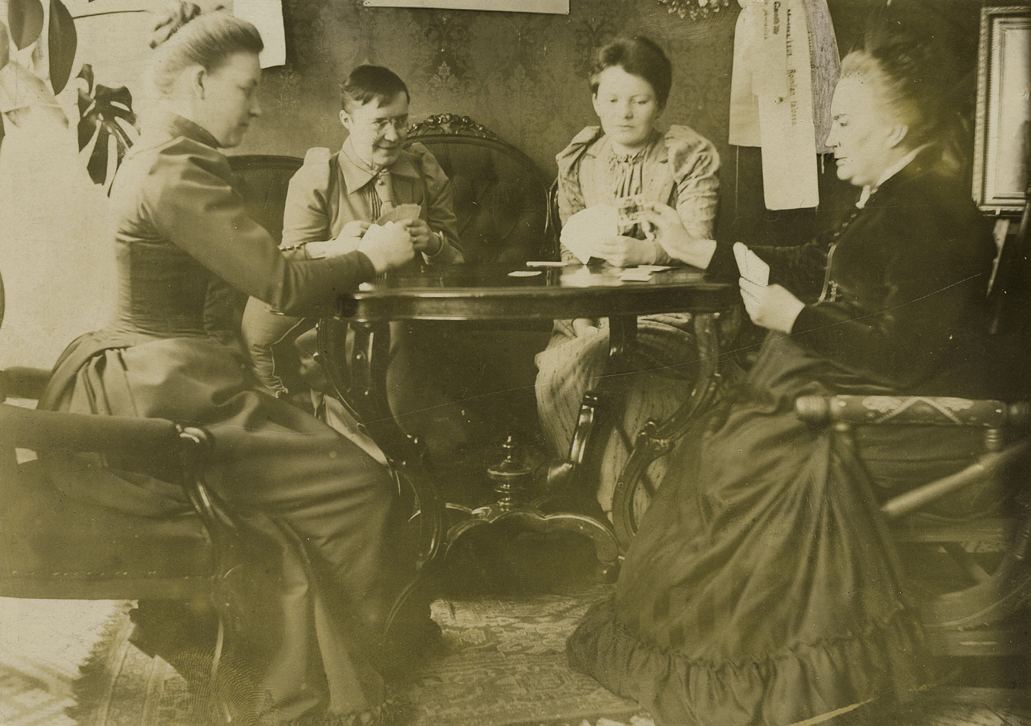 Finnish author Minna Canth's famous salon. Ladies playing cards. From left: Hanna Levander, Alma Tervo, Maiju and Minna Canth.